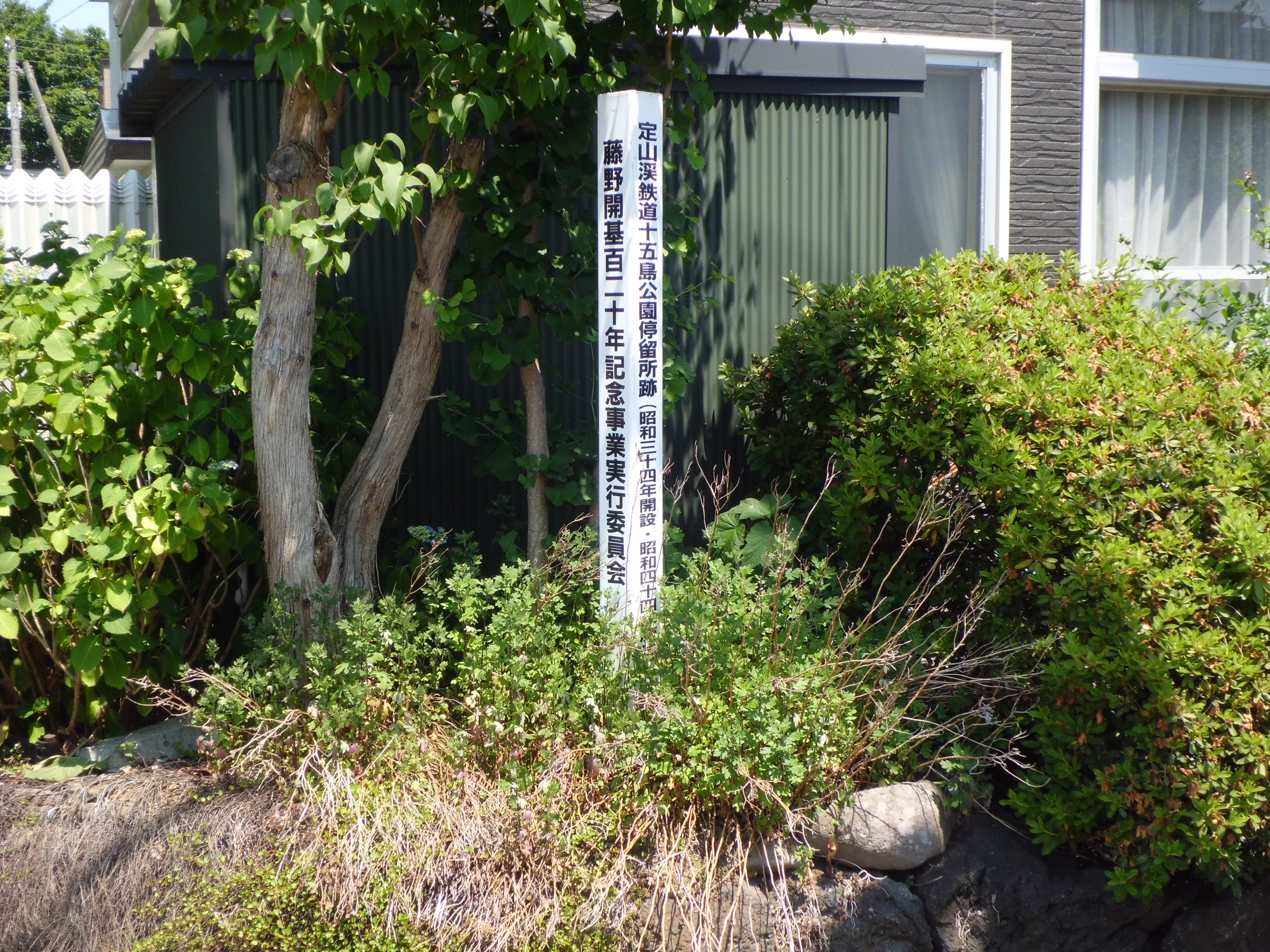 Remains of Jugoshima-koen Station